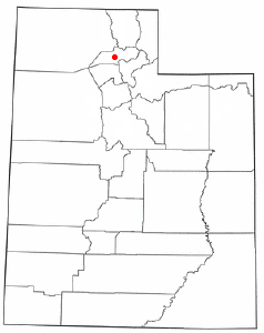 Locator map of Ogden city, in the Ogden Valley, in Utah.